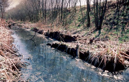 A sunken and ruined narrowboat lying on the canal bed